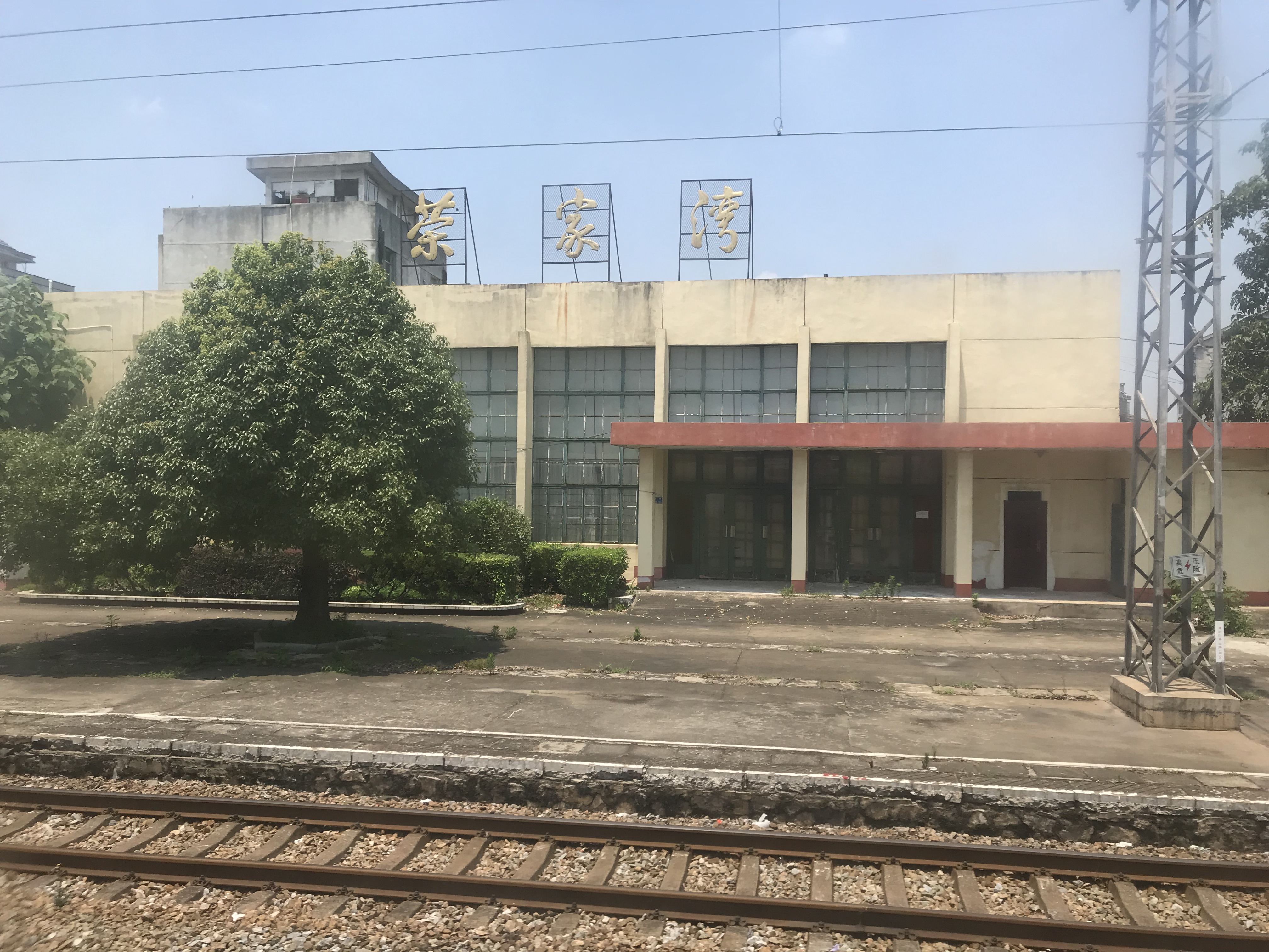 201906 Station Building of Rongjiawan